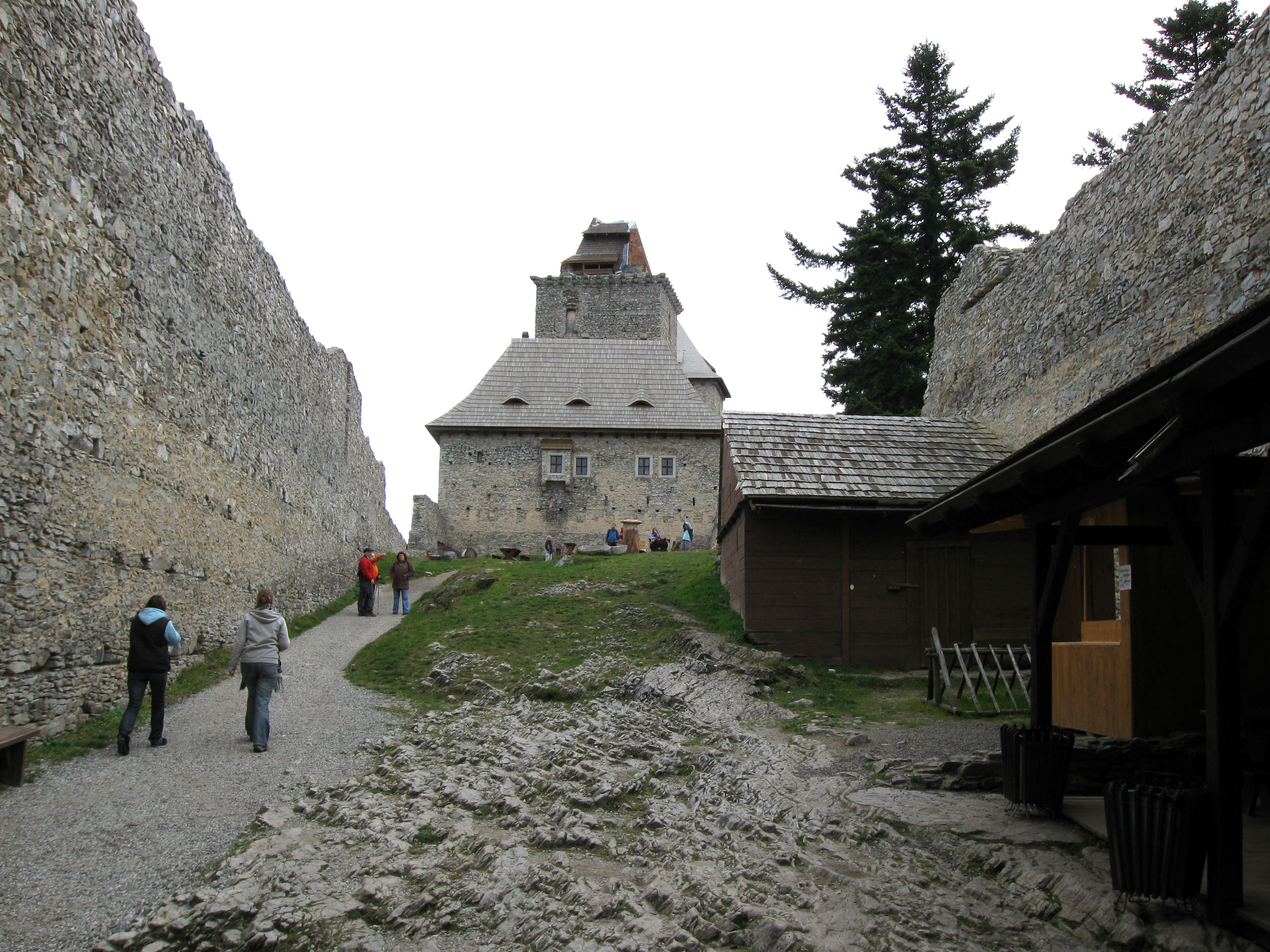 Castle Kasperk